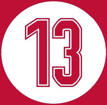 The number "13", retired for Dave Concepción by the Cincinnati Reds.